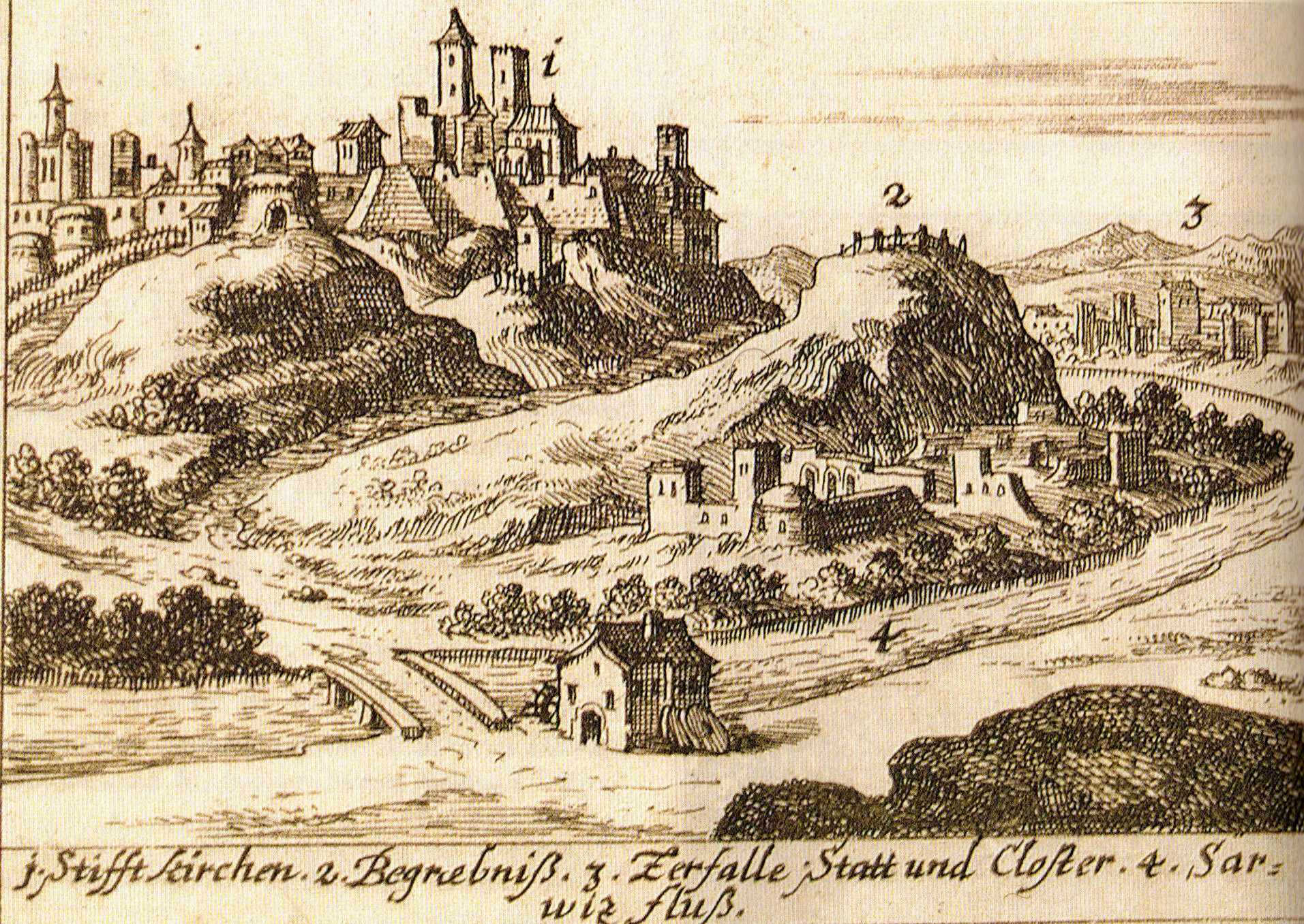 Veszprém in the 17th century